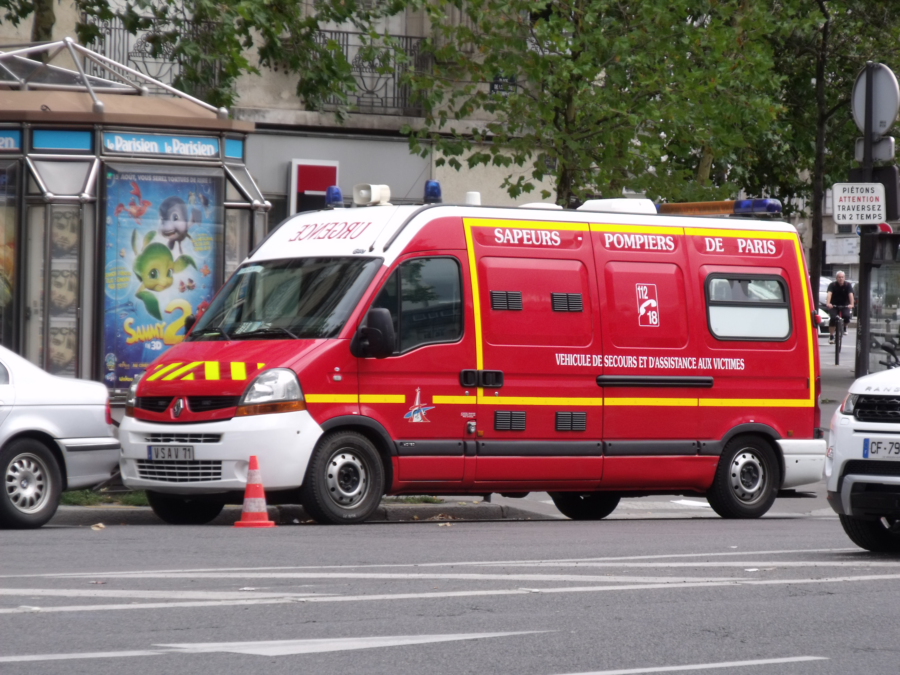 Light ambulance VSAV71 of Paris FB.